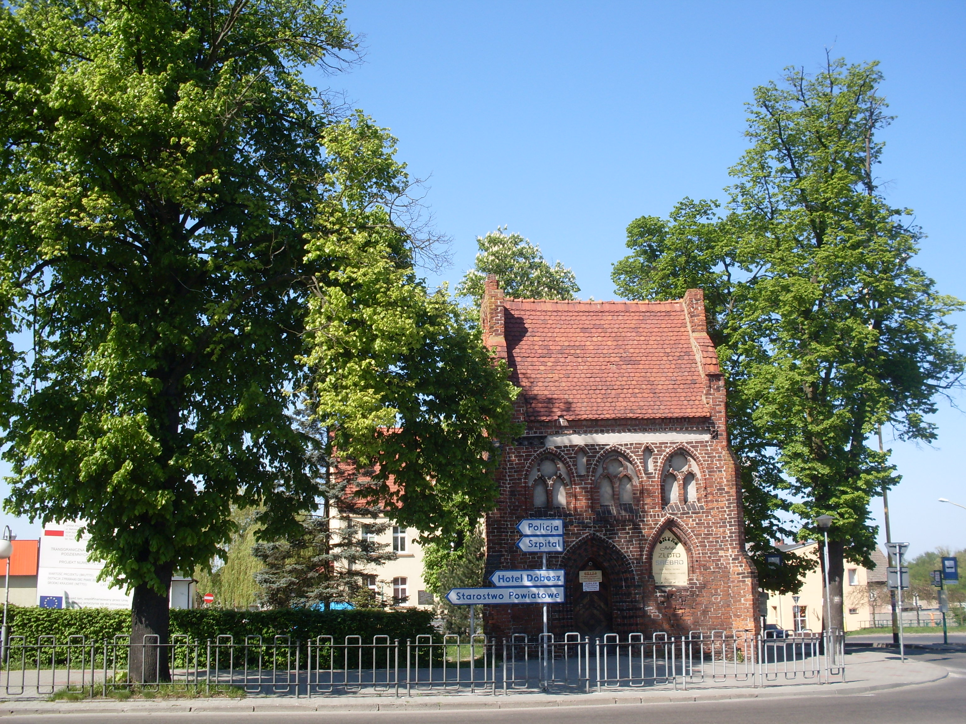 Brick Gothic Chapel (15th century) in The Chrobry Square in The Old Town of Police, Poland